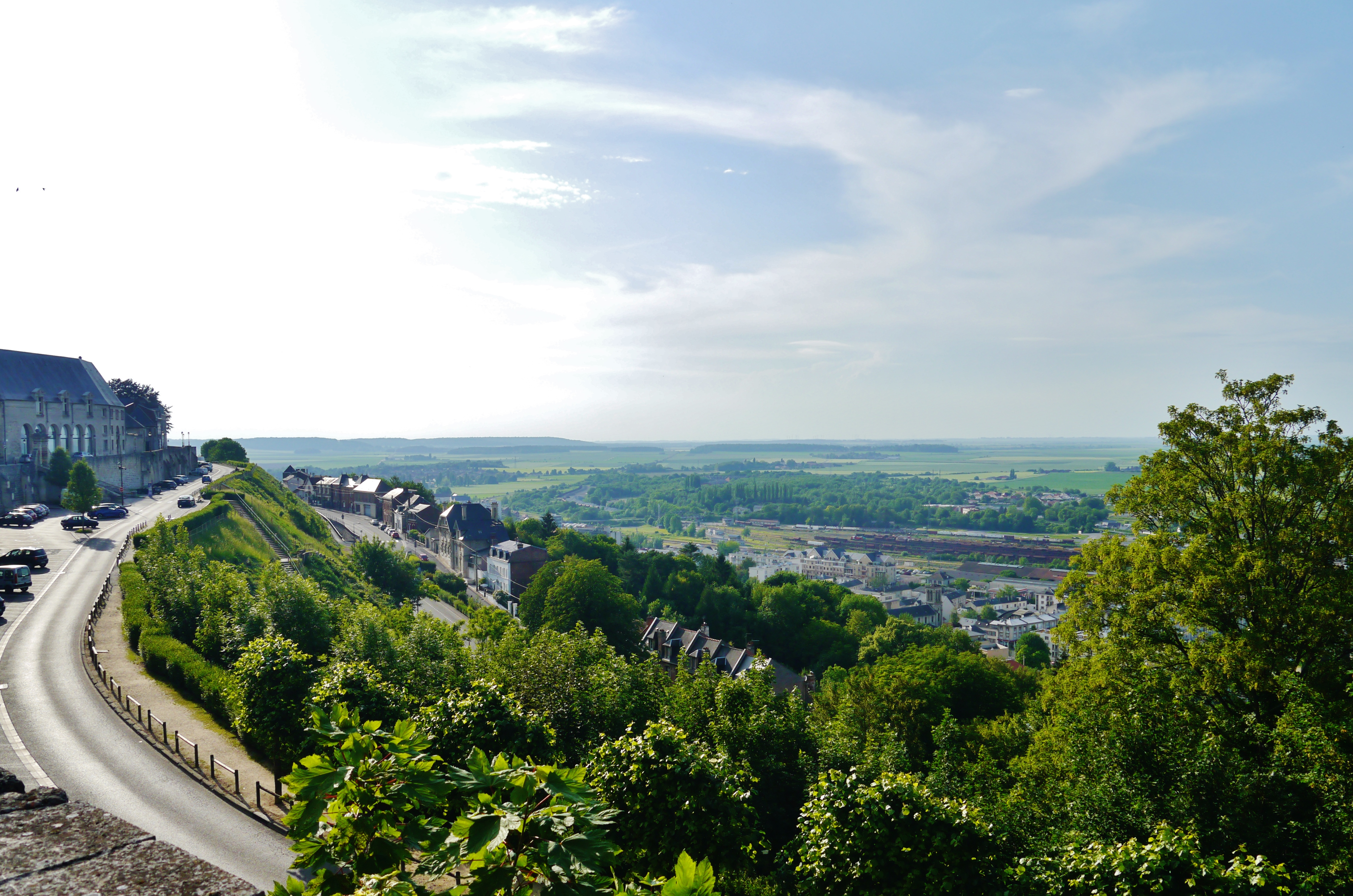 View from the Upper City to the Lower City, Laon, Department of Aisne, Region of Upper France (former Picardy), France